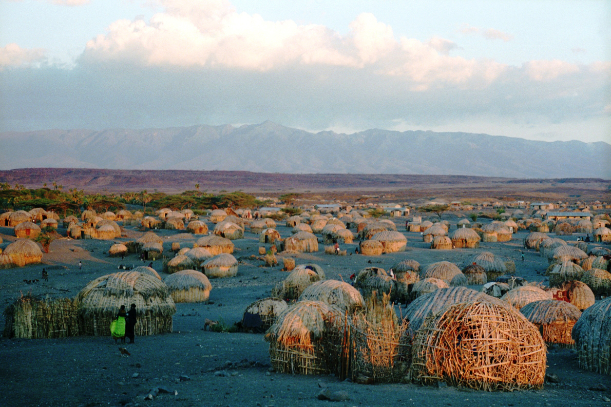 Kenya